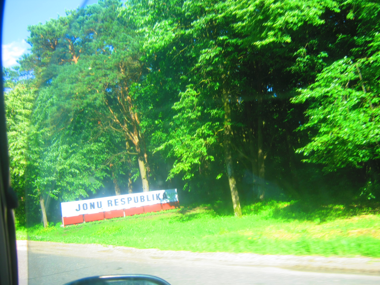 Sign of Republic of Jhons